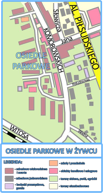 Plan of Park housing estate in Żywiec, Poland (frame included)